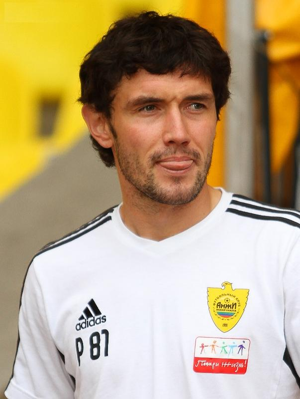 Yuri Zhirkov in Anzhi Makhachkala uniform